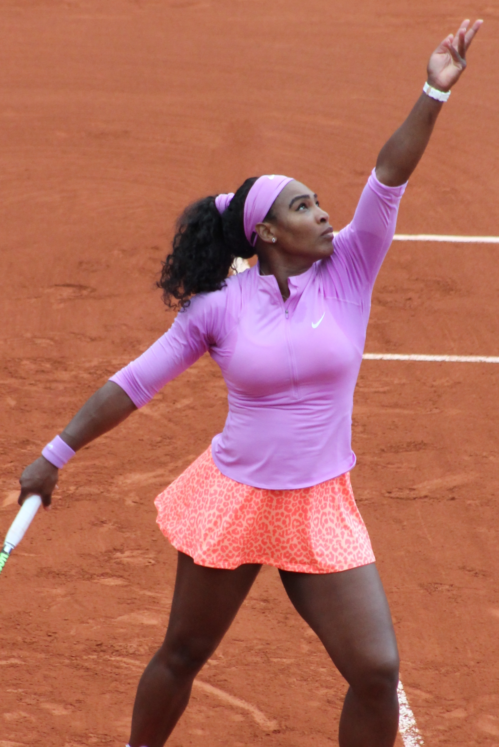 Williams S. RG15 (9)